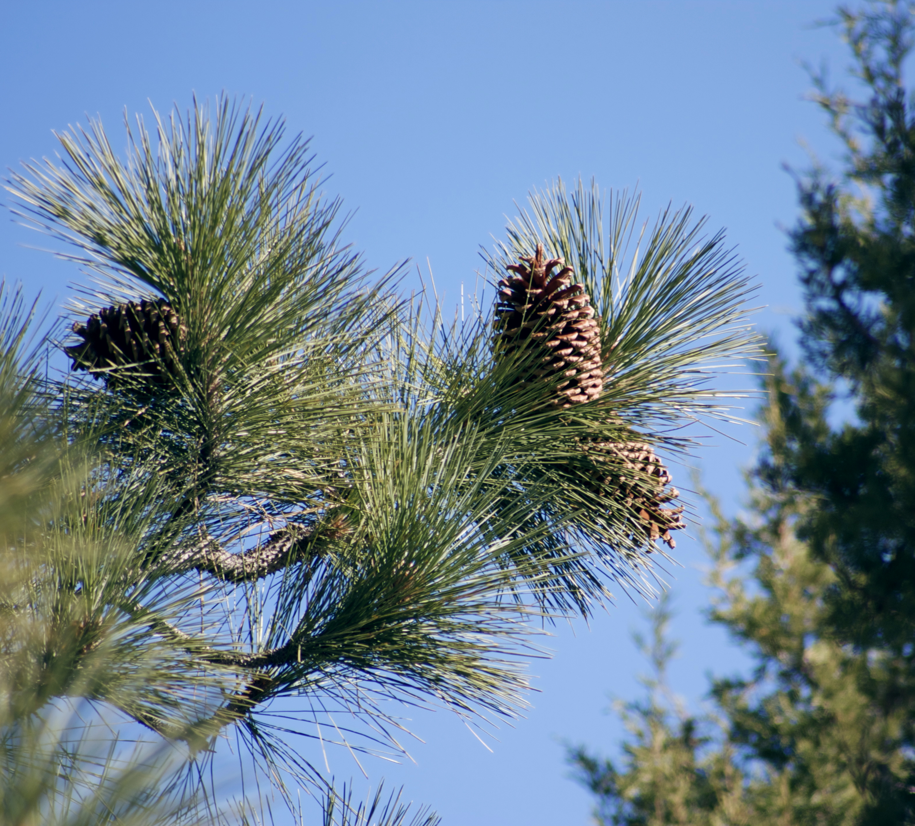 Pinus jeffreyi foliage and cones, Big Bear Lake, California